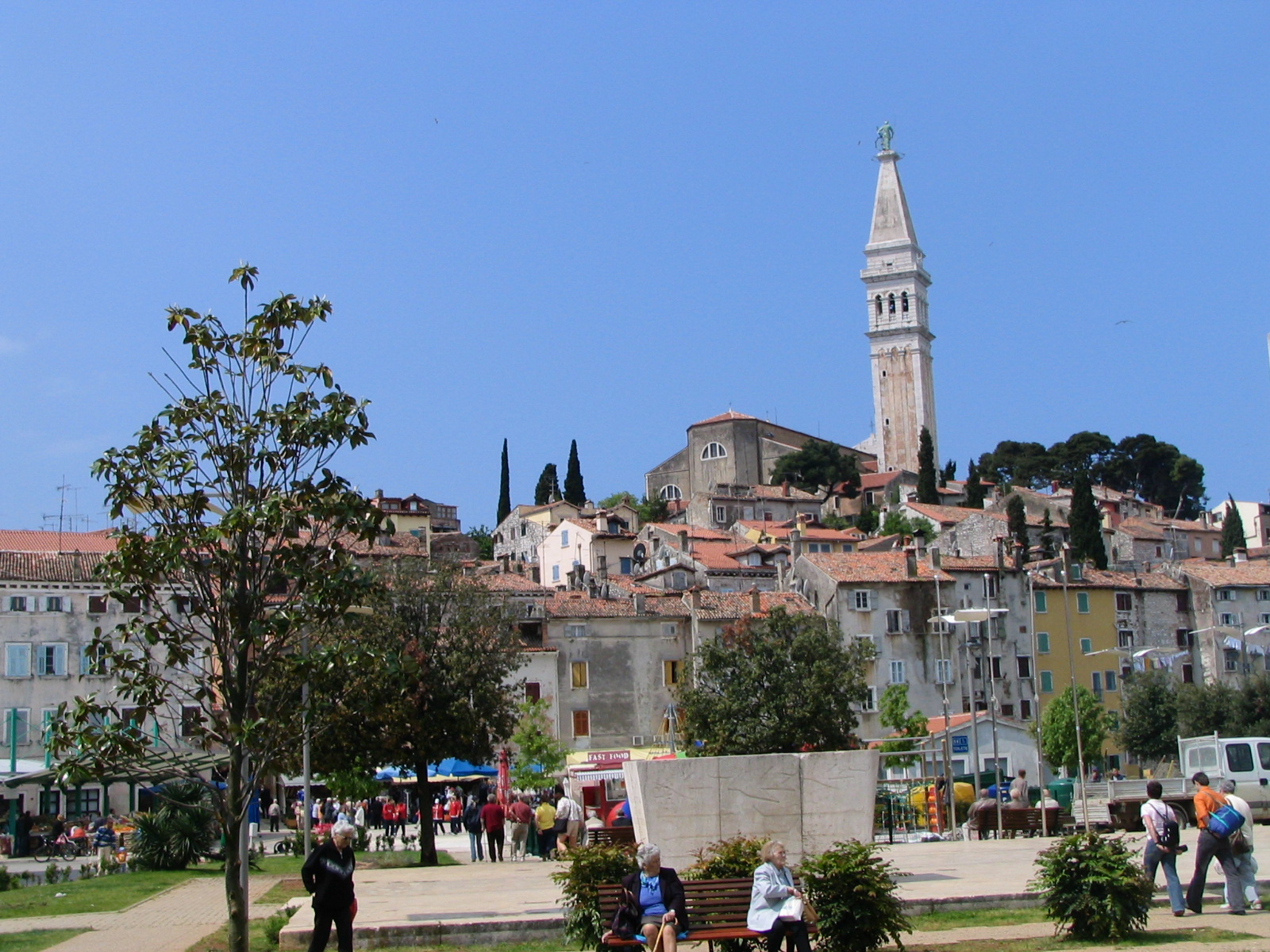 City of Rovinj (Croatia). Own photo